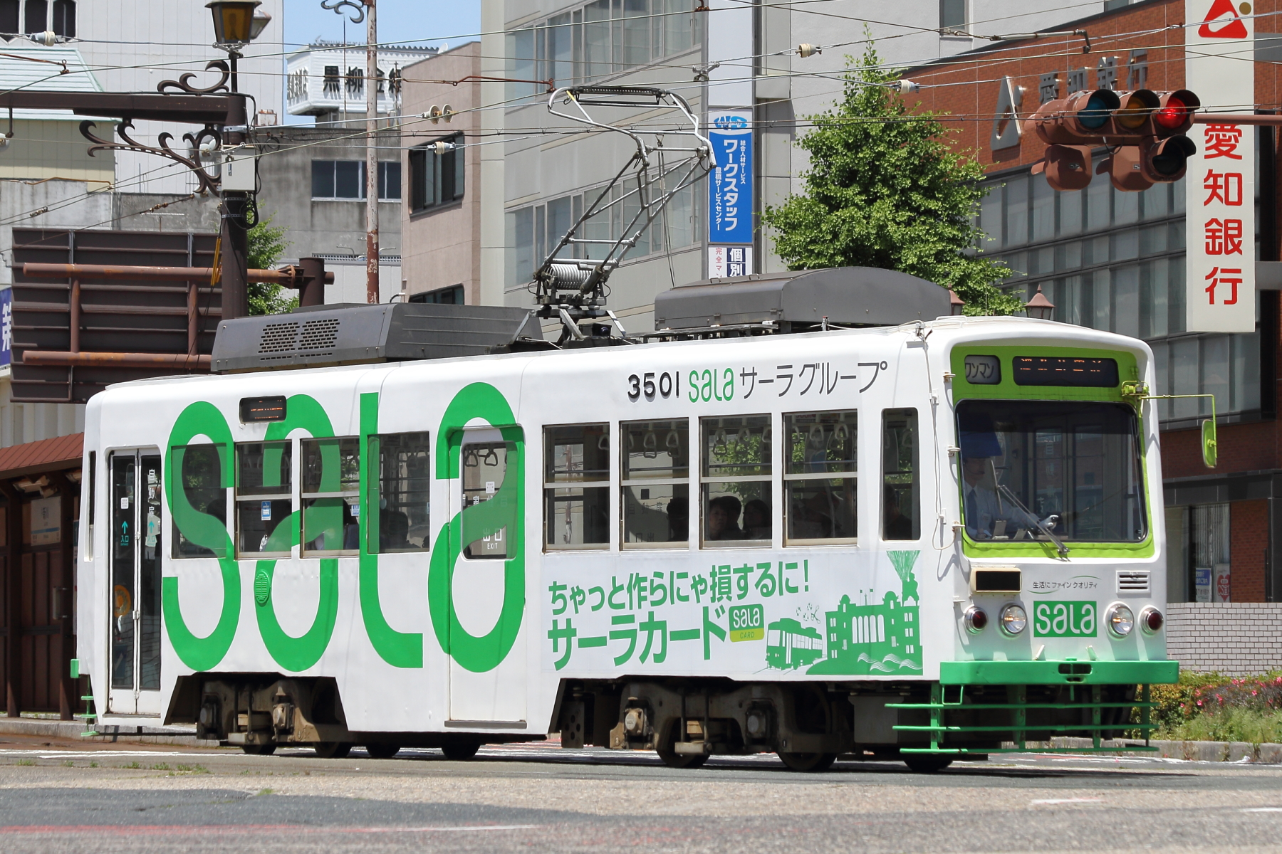 Toyohashi Railroad No.3501